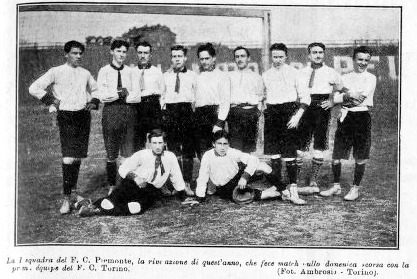 Piemonte FC, 1908 Seconda Categoria (Campionato Italiano) winner.